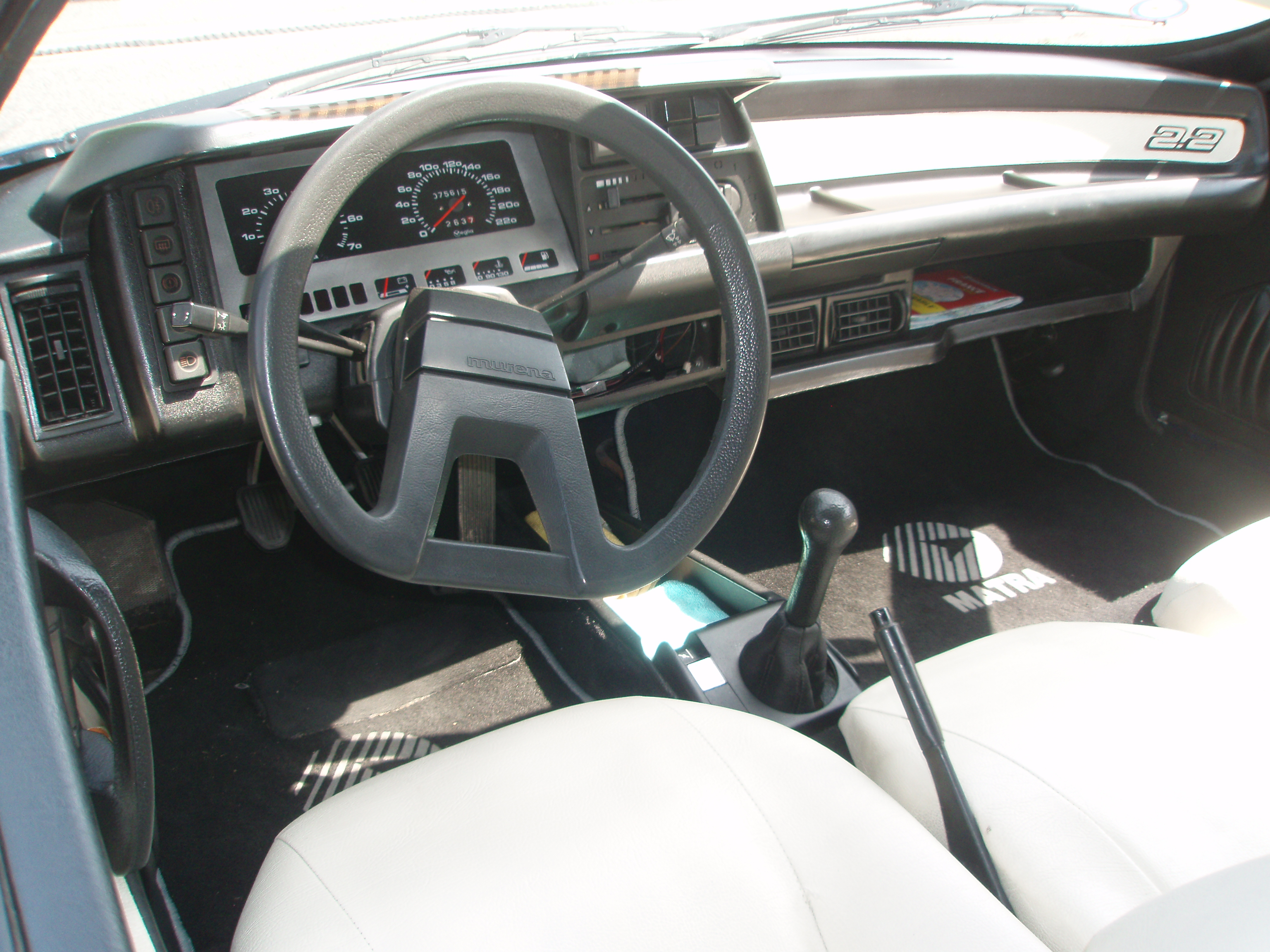 Dashboard and wheel of a Matra Murena 2.2